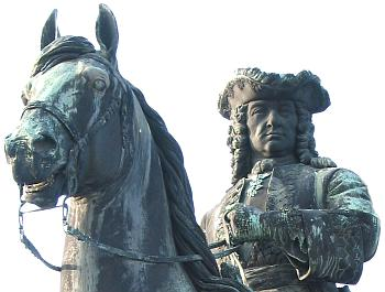 Photograph of a statue of Ludwig Andreas Khevenhüller. This statue is part of the monument of Maria Theresia, which stands in Vienna in the park between the Kunsthistorisches Museum ("Art History Museum") and the Naturhistorisches Museum ("Natural History Museum").